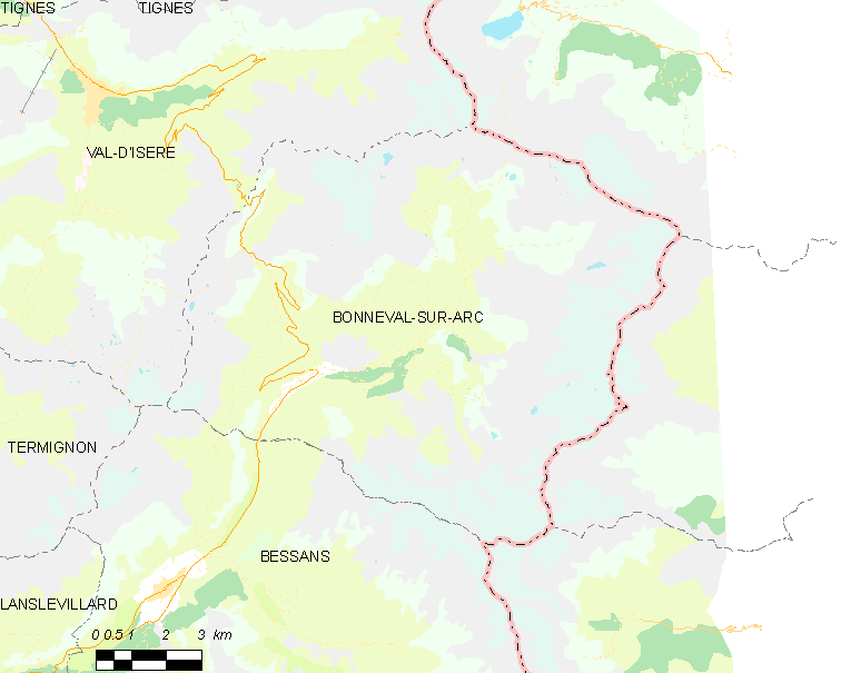 Map of French municipality